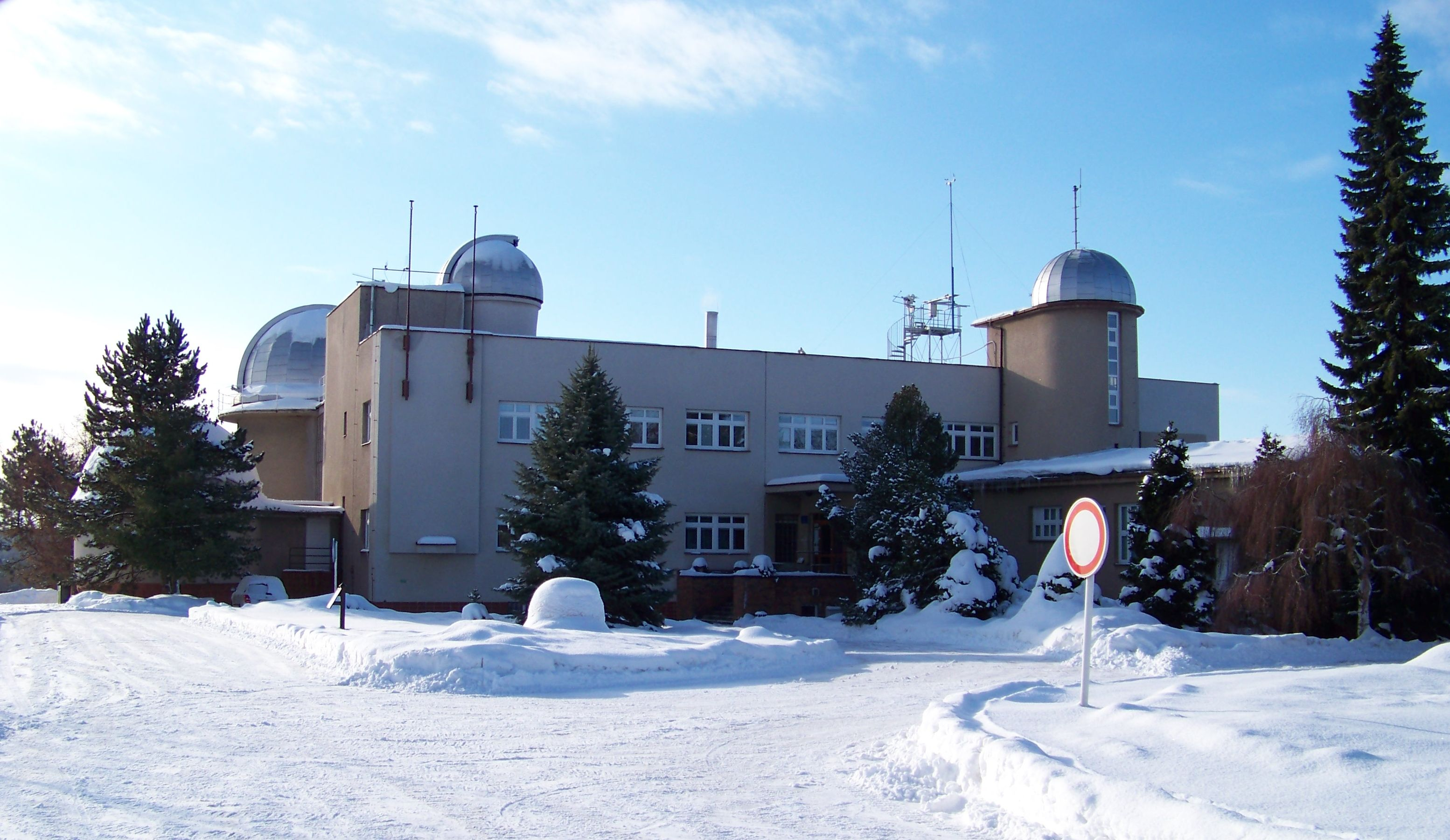 Hradec Králové-Třebeš, the Czech Republic. Observatory and Planetarium Hradec Králové.